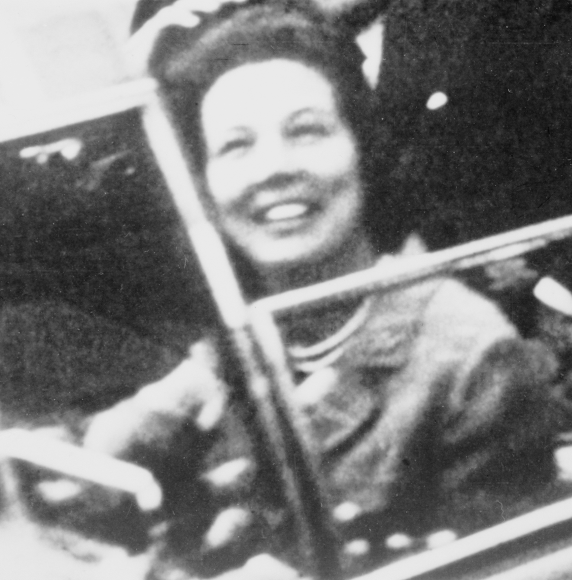 President John F. Kennedy motorcade, Dallas, Texas, Friday, November 22, 1963. Also in the presidential limousine are Jackie Kennedy, Texas Governor John Connally and his wife, Nellie.